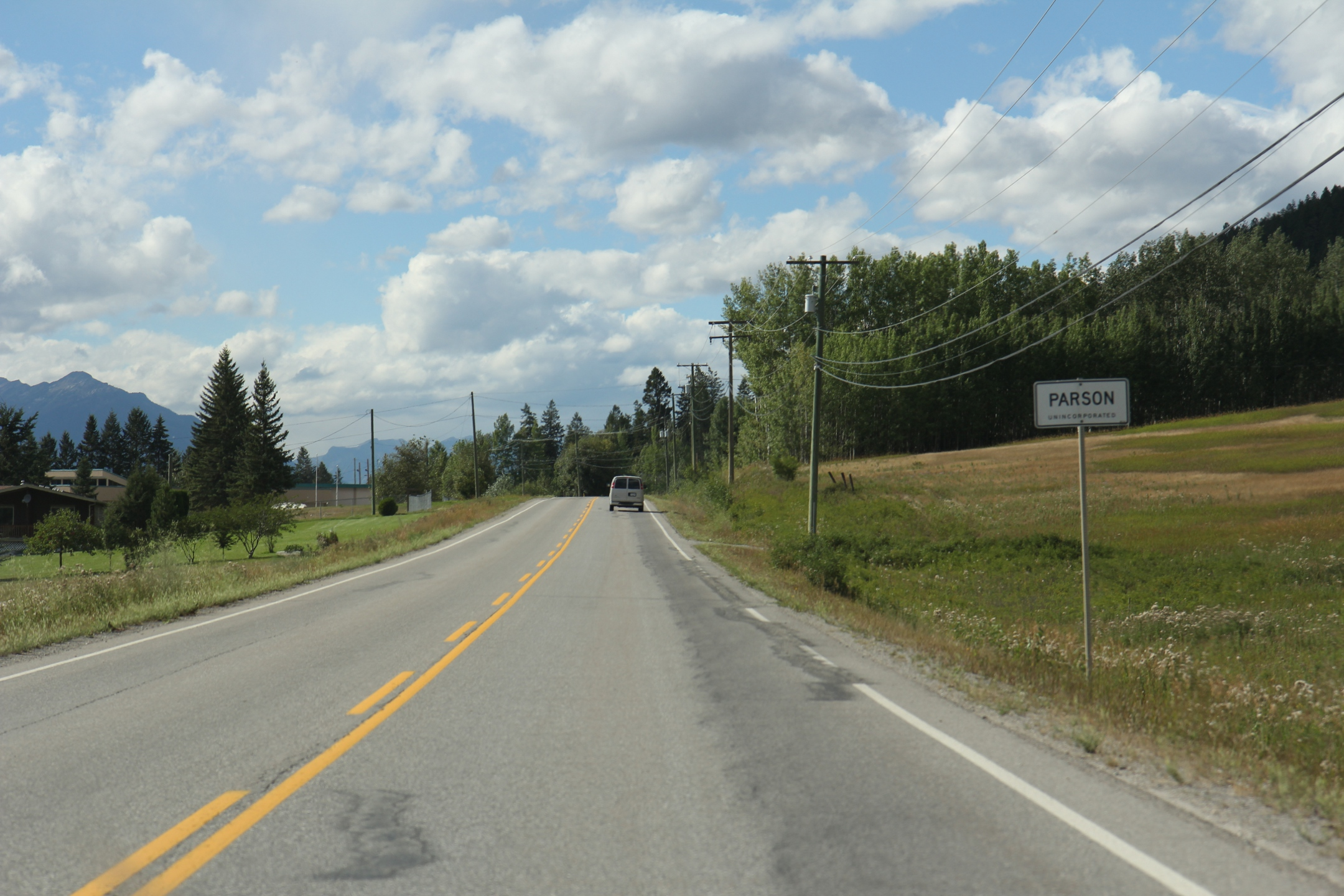 中文（香港）: Entering Parson, British Columbia on British Columbia Highway 95.